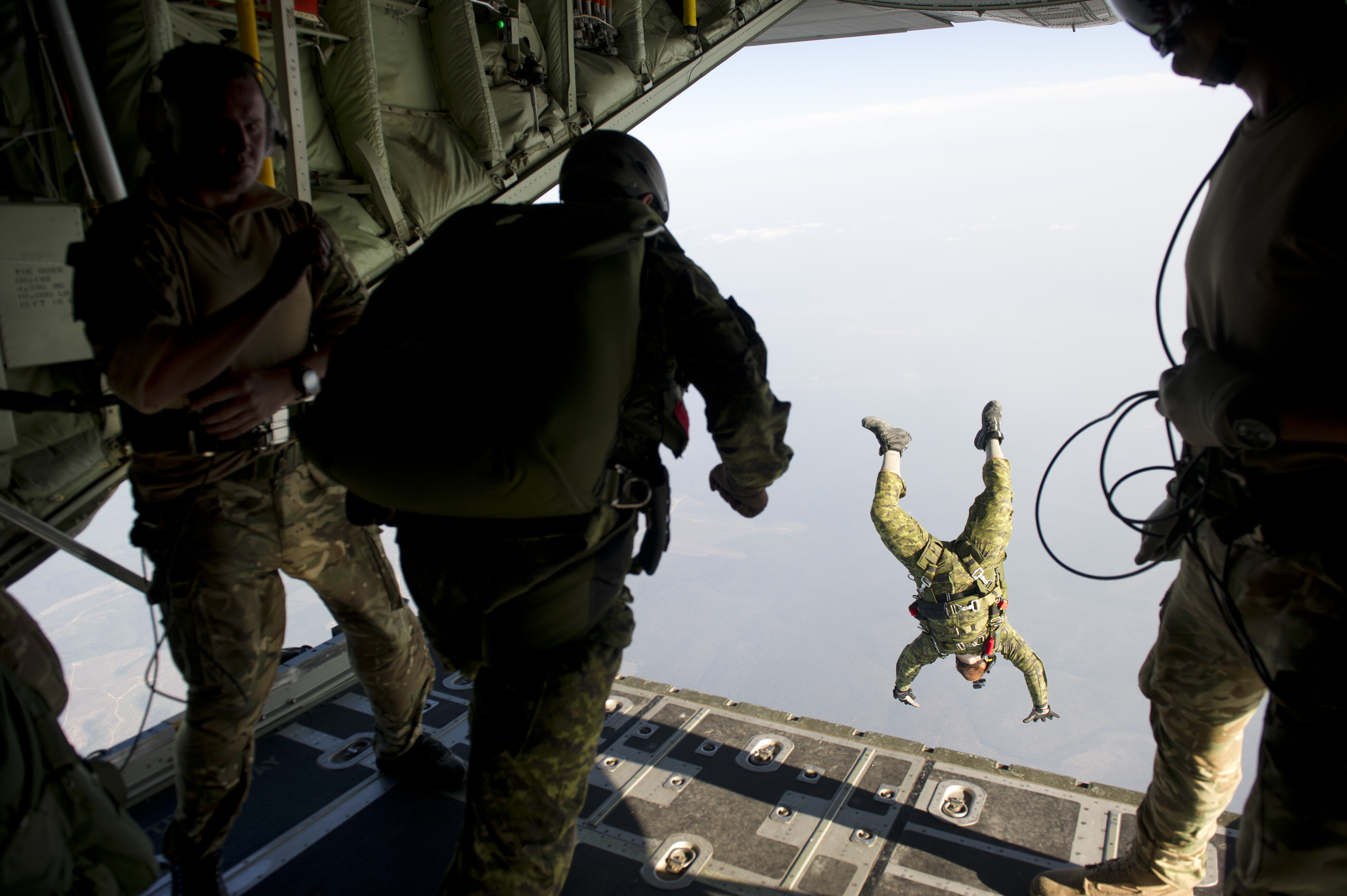 Special operations jumpers from the Canadian Special Operations Regiment, Green Berets of 7th Special Forces Group (Airborne) and Para-rescue airmen from the Air Force Special Operations Command begin exiting a British C-130 from the Royal Air Force during a high altitude low opening parachute jump (HALO) Hurlburt Field, Fla., April. 25, 2013. Special operations members from coalition forces participated in HALO jumps during Exercise Emerald Warrior, Emerald Warrior is an exercise designed to provide irregular training at the tactical and operational levels. The exercise involved all branches of the U.S. military and special operations members from allied countries. (U.S. Army photo by Spc. Steven Young)